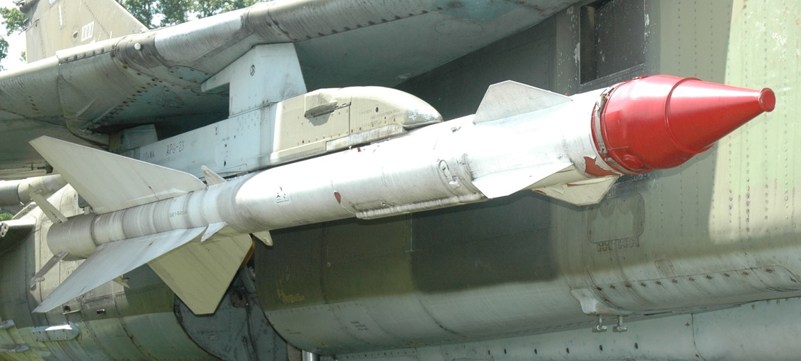 R-23T air-to-air missile on MiG-23 fighter